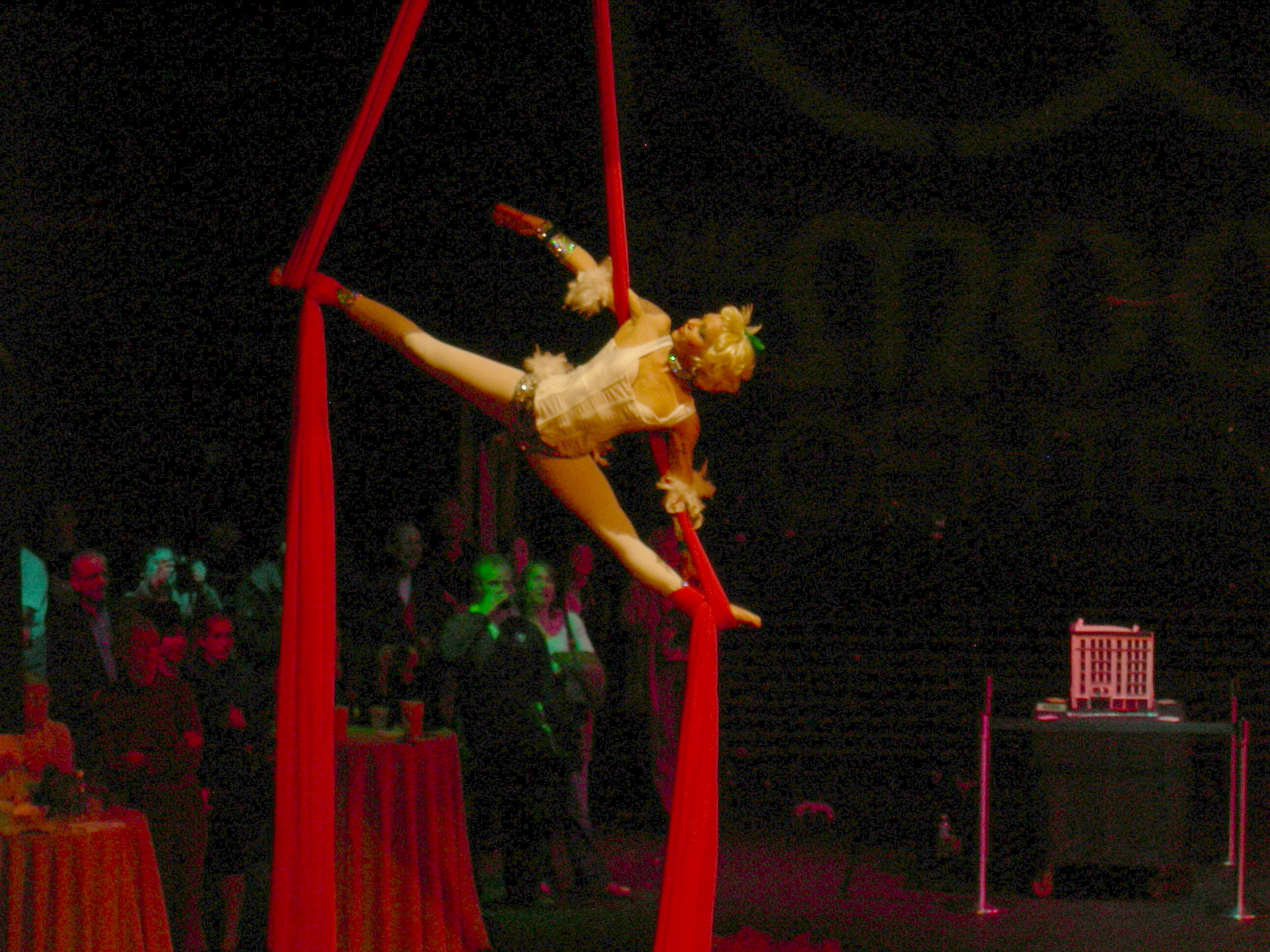 Aerialist acrobat Quynbi Horton performs at the Moore 100 Open House Celebration, celebration of the 100th anniversary of the Moore Theatre, Seattle, Washington.